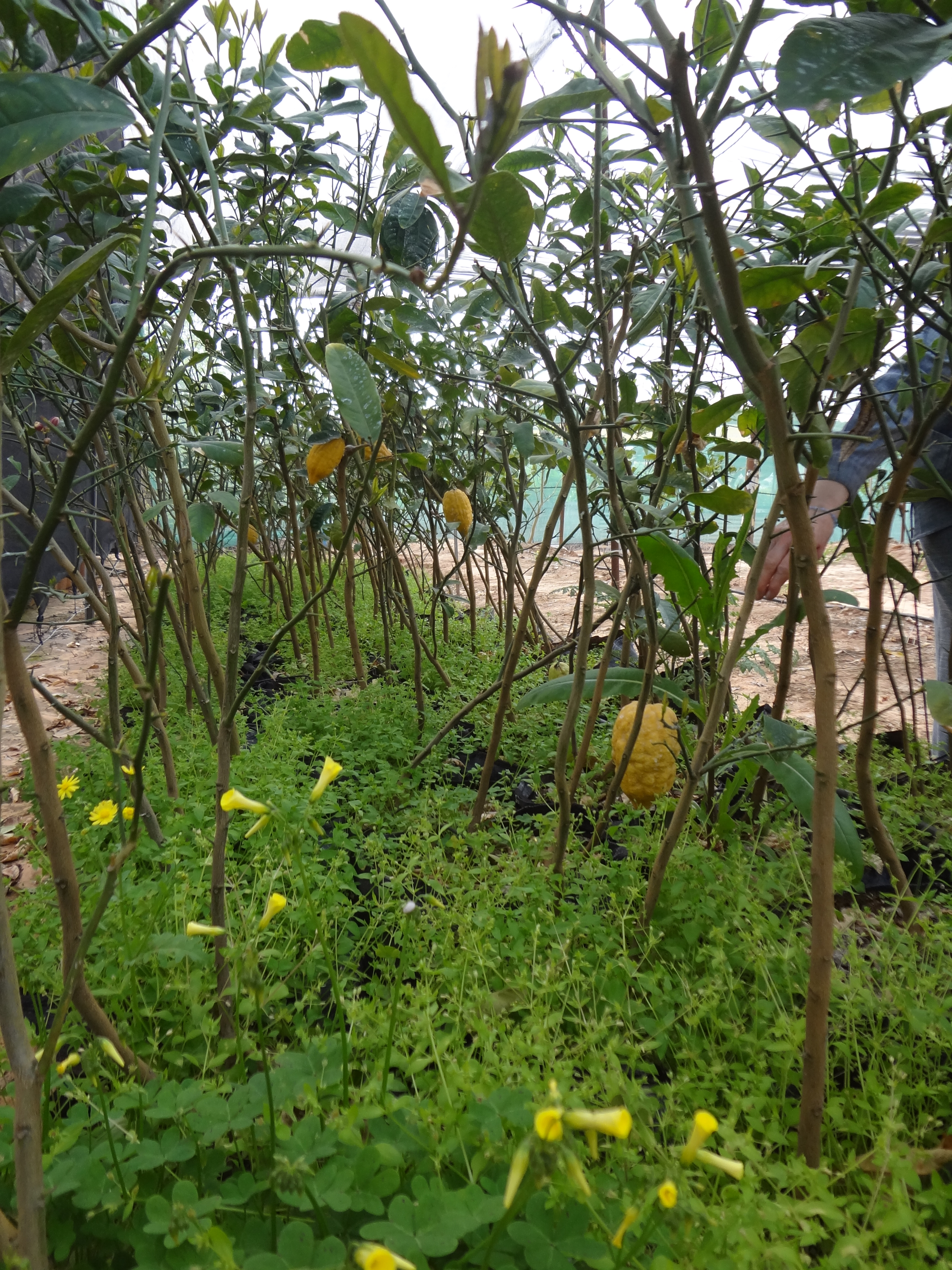 A row of etrog plants at kfar chabad showing their fruit.